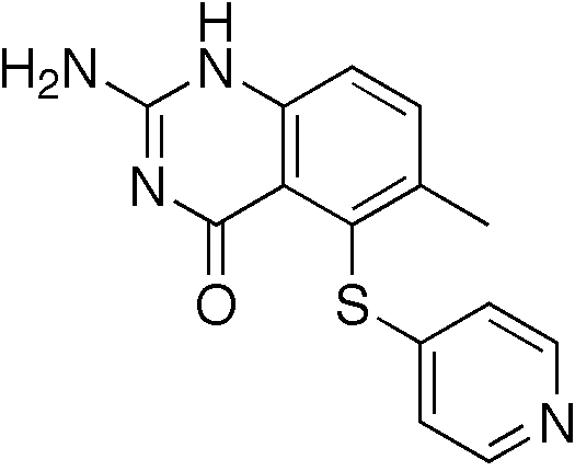 chemical structure of nolatrexed